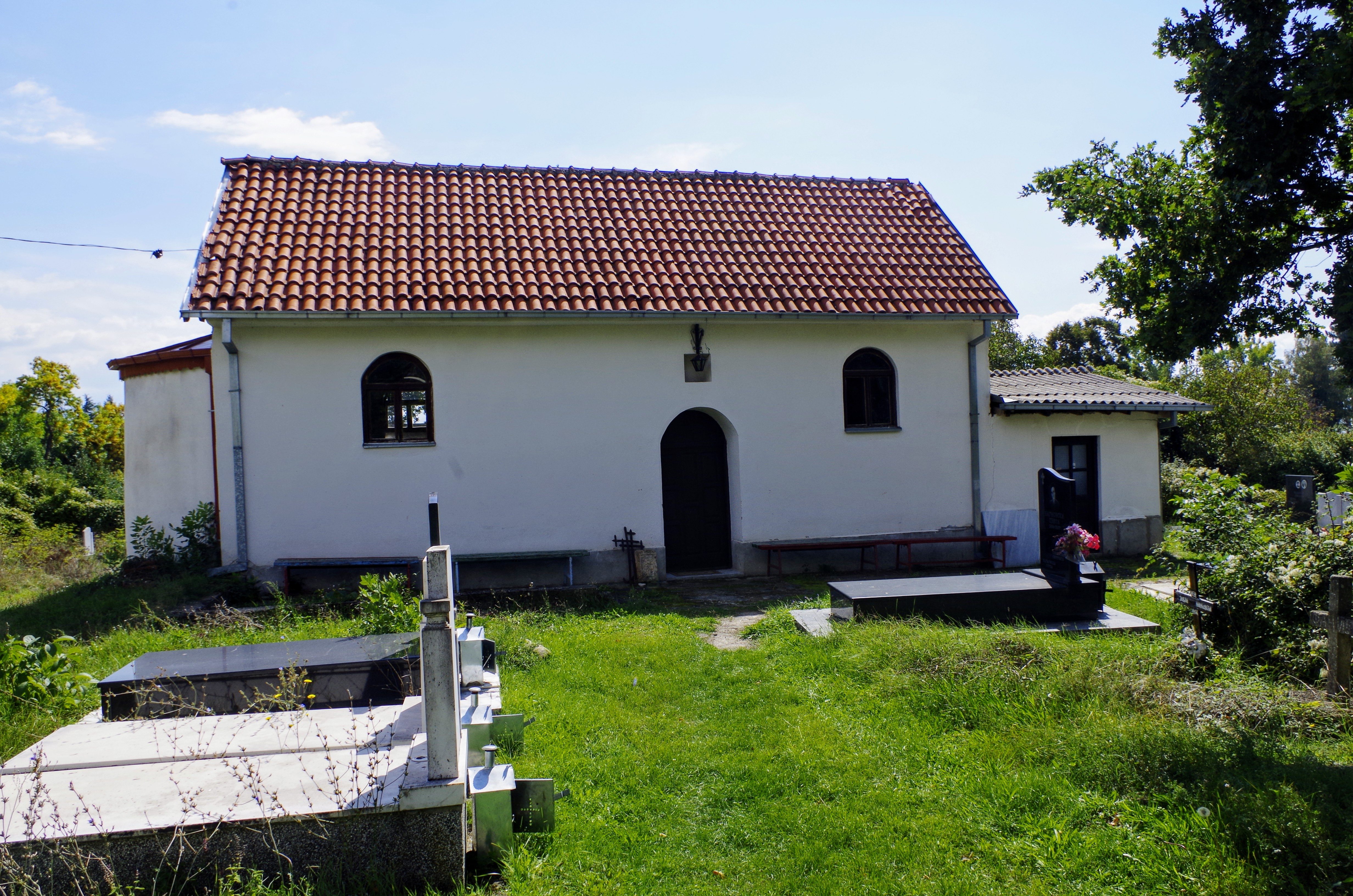 View of St. Michael the Archangel Church in the village Pretor